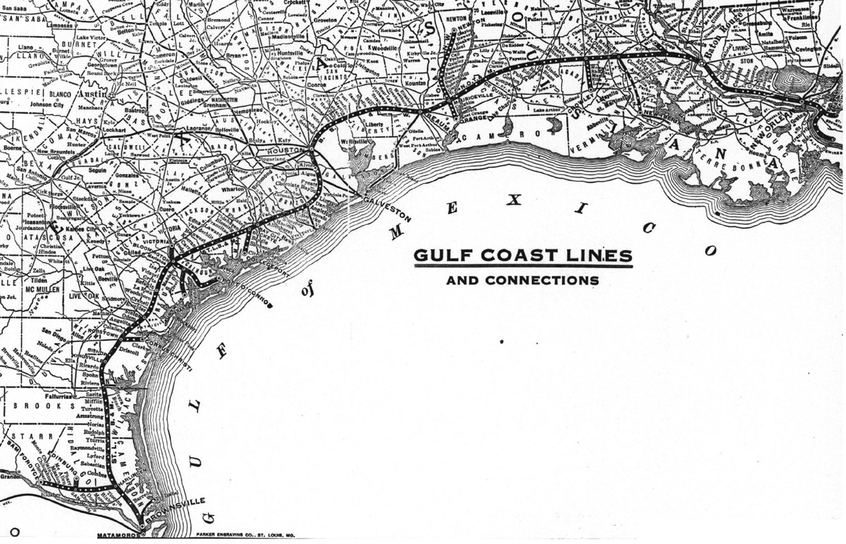 Parker Engaving Co., St. Louis, Missouri, no date. Public domain because it was made during the life of the company (1916-Dec. 31, 1924), and must have been made before mid-1924 when the company acquired the International-Great Northern Railroad, not indicated at all on this map. So the likelihood is great that this was first created and published pre-1923; and in any case, no copyright notice is provided on the map. Found at Texas Transportation Archive ( accessed 2 April 2011.